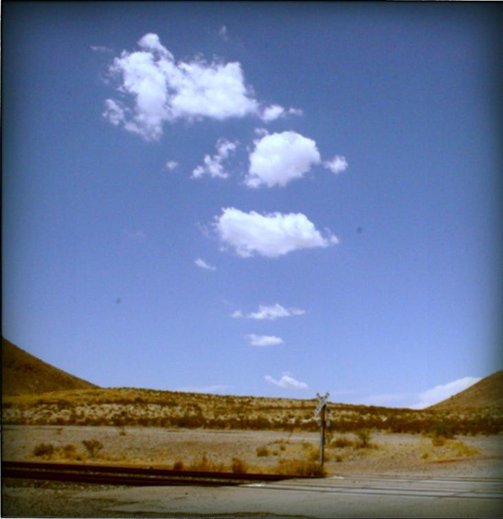 I got the feeling that there was someone trying to communicate with me via smoke signals.